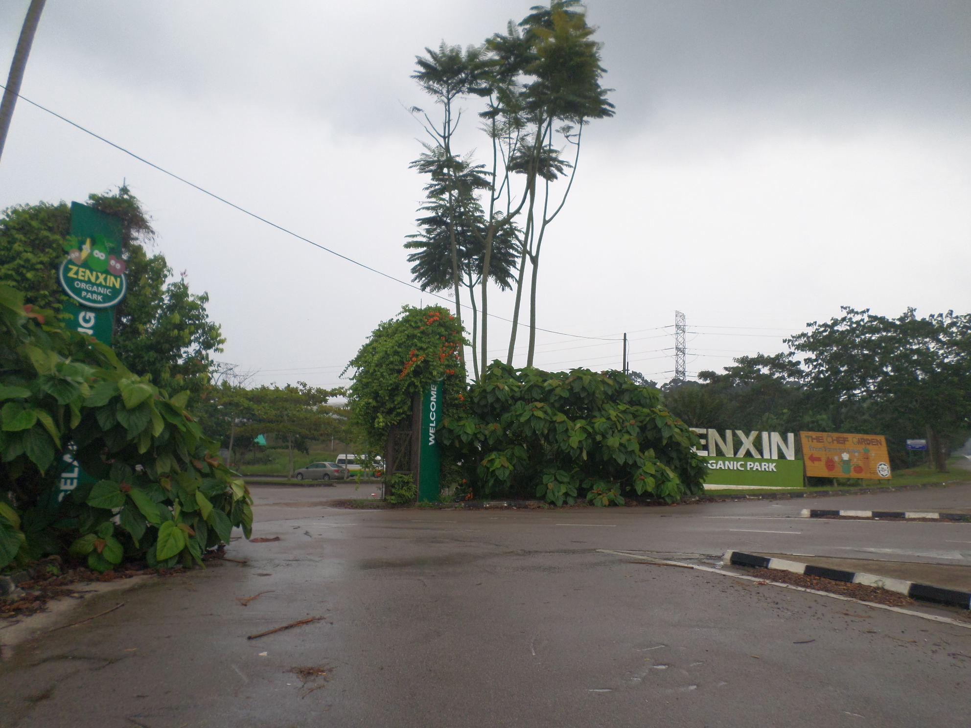 Zenxin Organic Park, Kluang, Johor, MalaysiaBahasa Melayu: Taman Organik Zenxin, Kluang, Johor, Malaysia